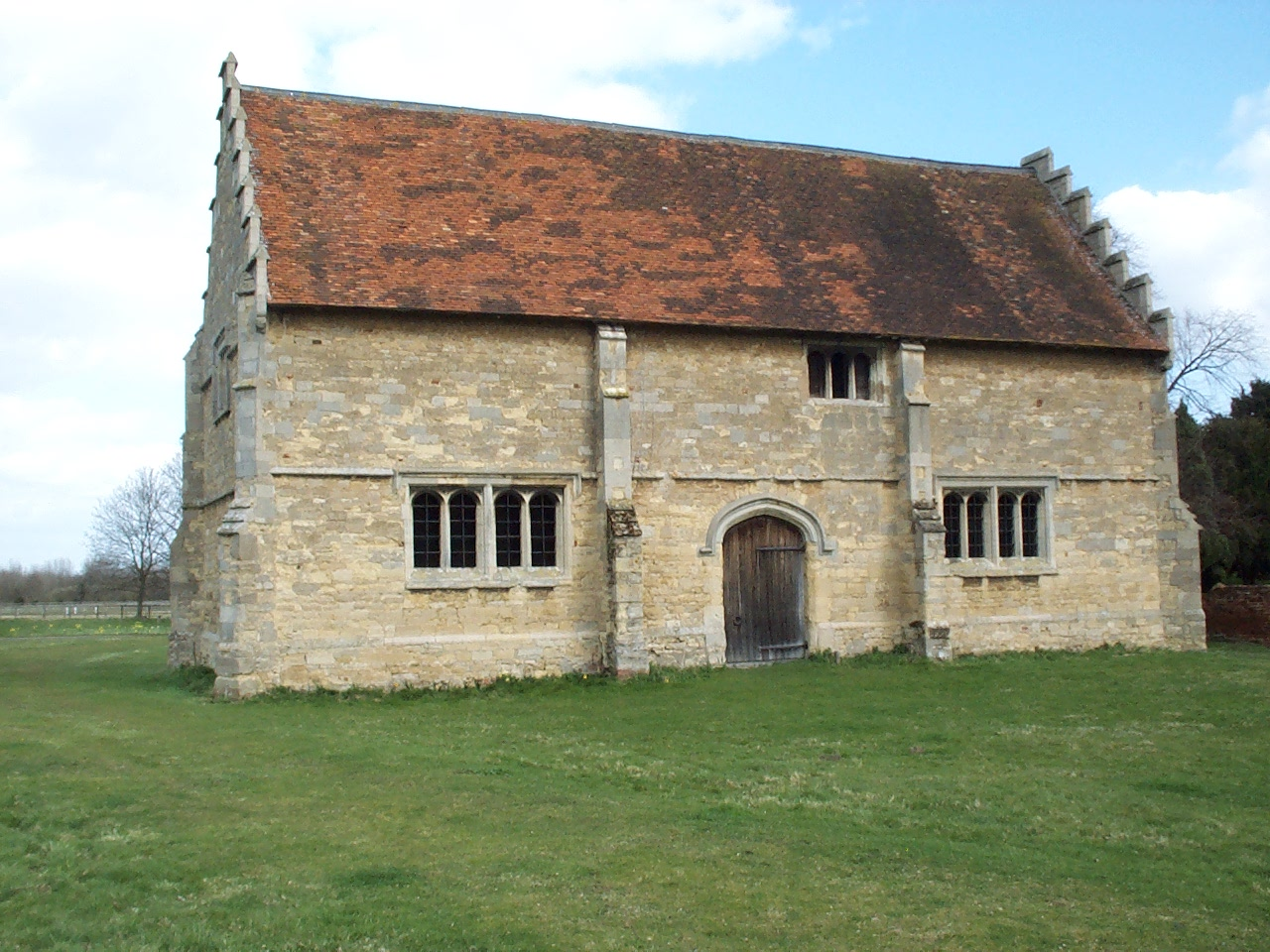 The stables in Willington, Bedfordshire, England. The building is maintained by the National Trust.